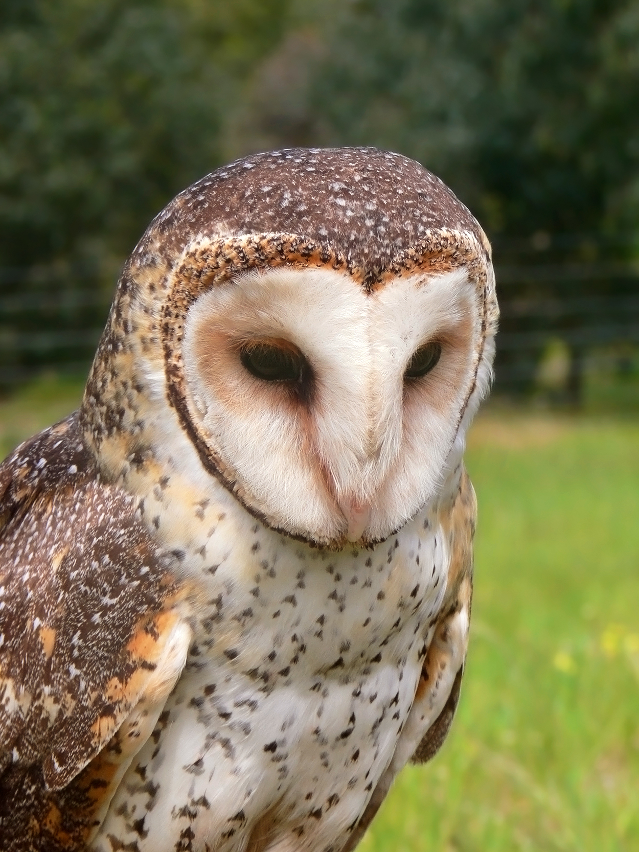 A Masked owl Tyto novaehollandiae, taken at a Traveling Raptor flight display in south-eastern Australia